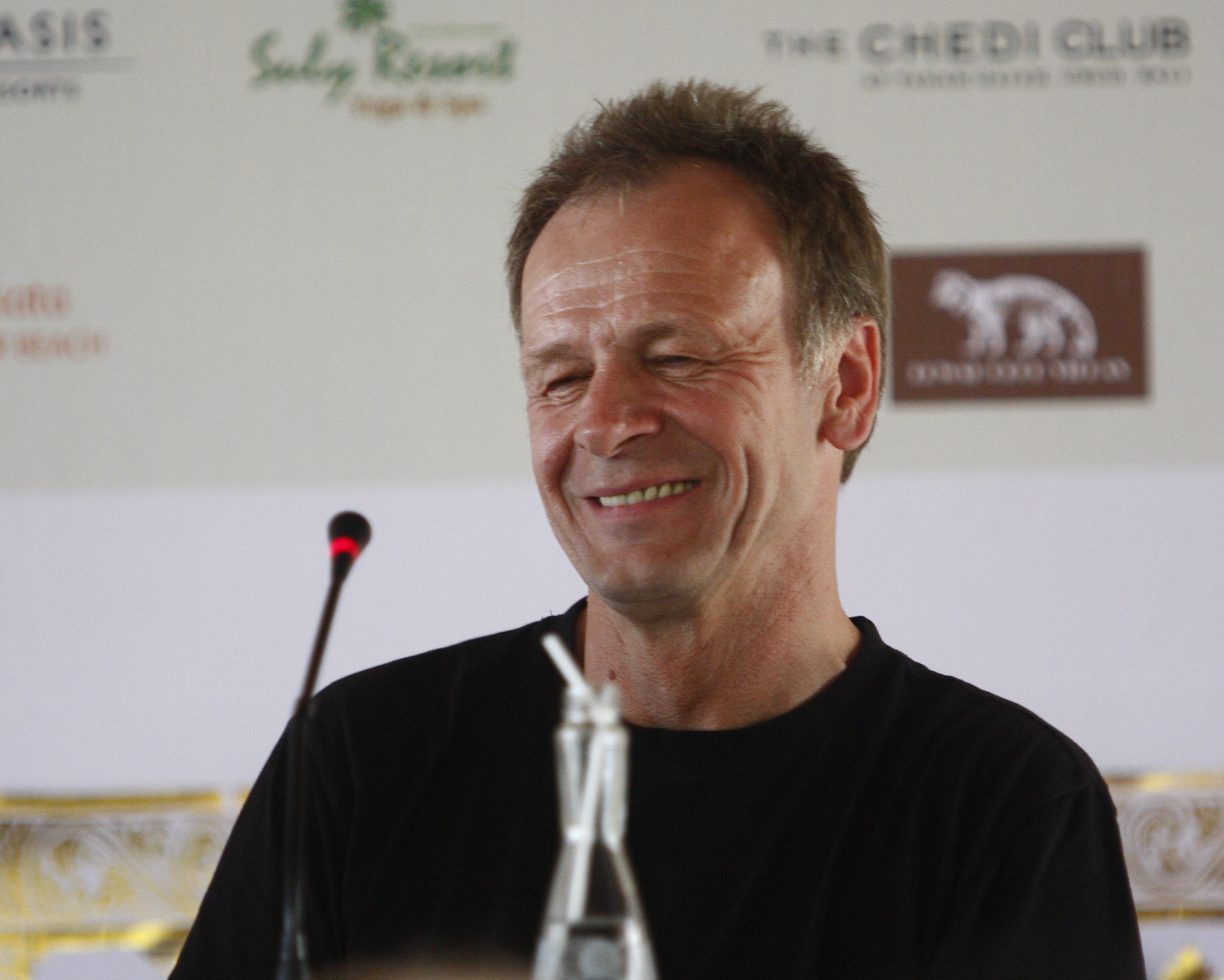 Ubud Writers & Readers Festival 2012. Image credit Stanny Angga.